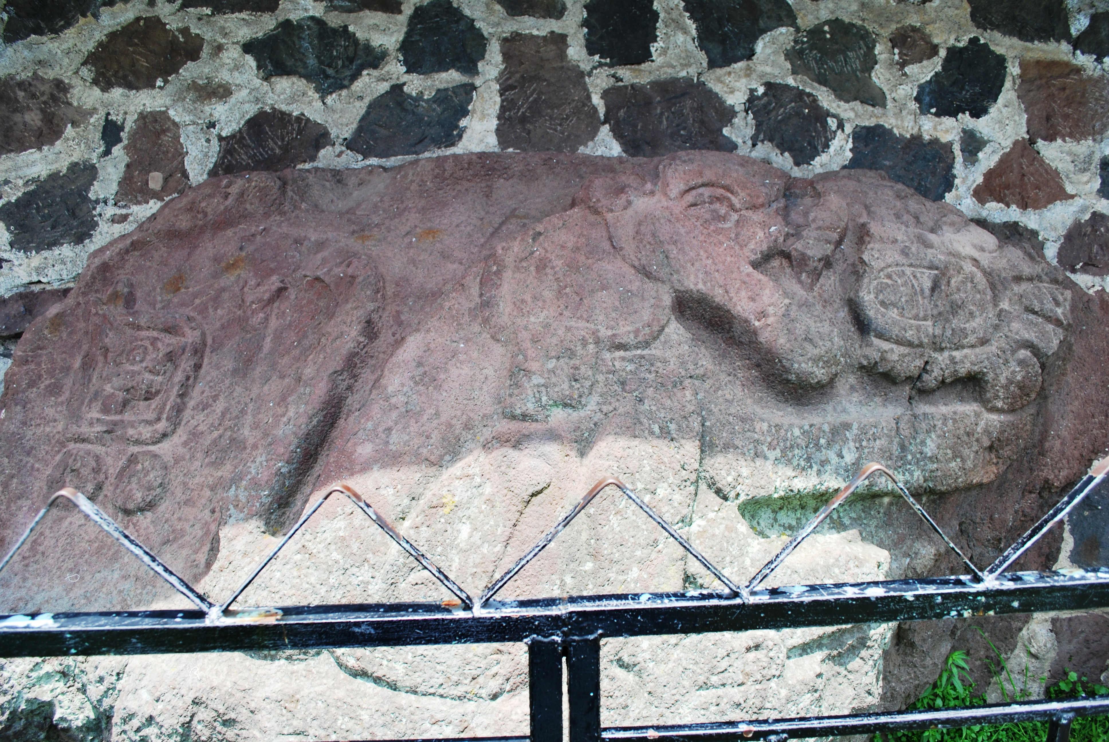 Jaguar relief on the north wall of Teotenango in Tenango del Valle, Mexico State